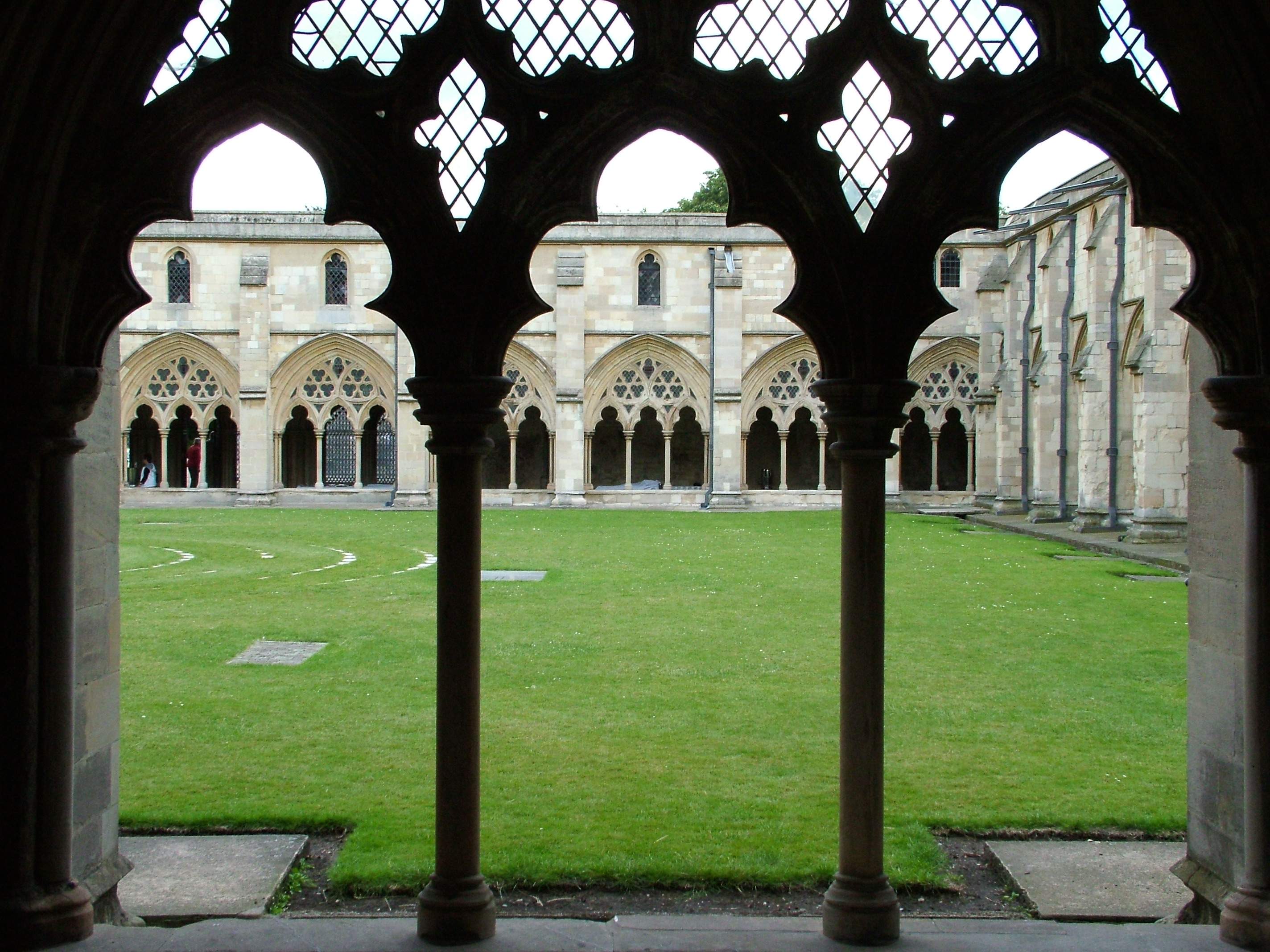 Norwich Cathedral